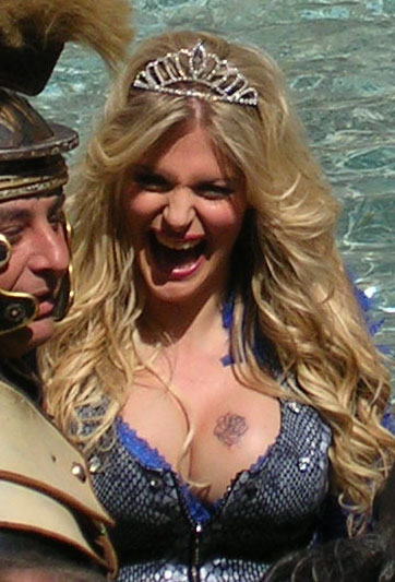 Italian media starlette, Francesca Cipriani, protesting at the Trevi Fountain, Rome, against TV company Endemol.